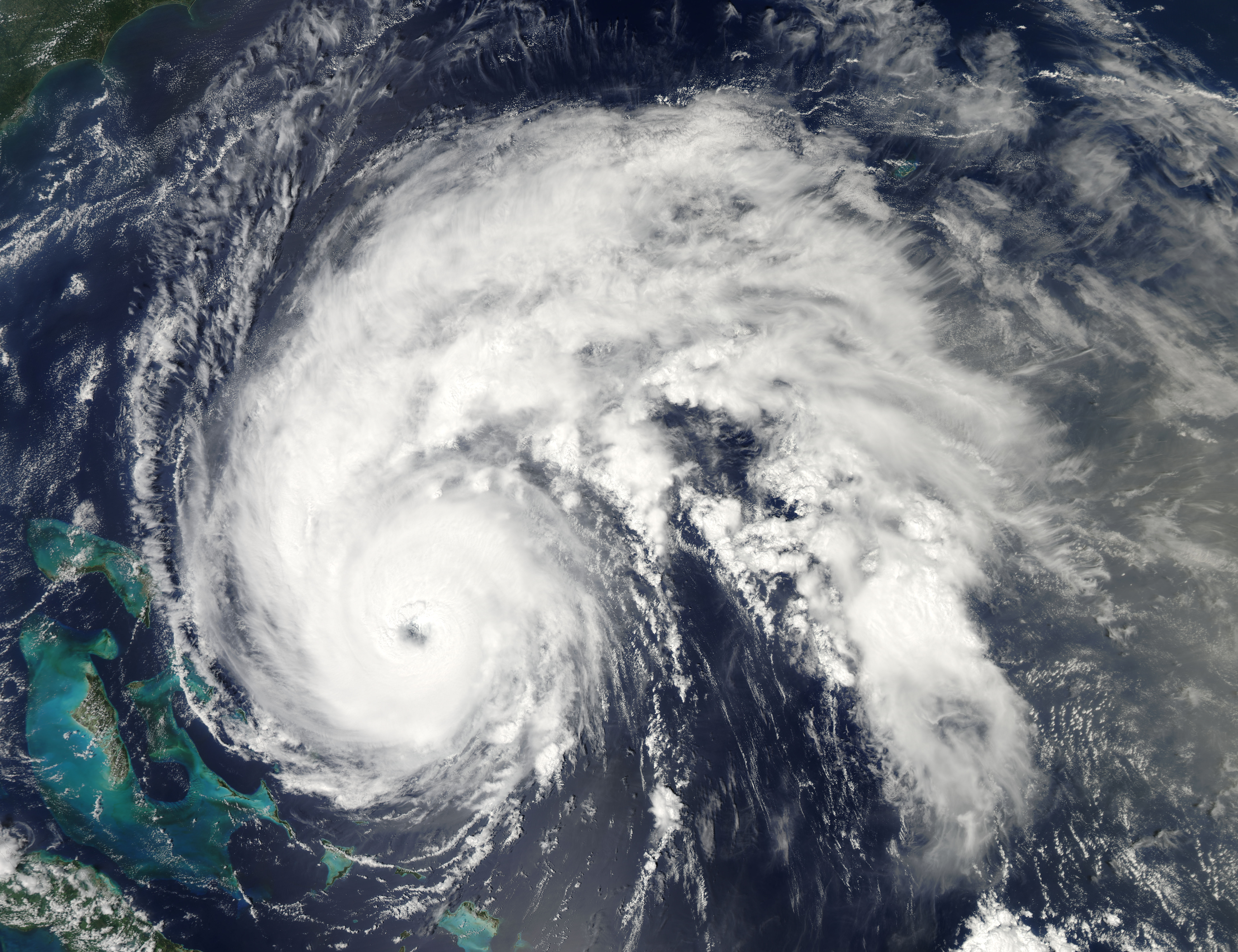 Hurricane Earl (07L) off the Bahamas.